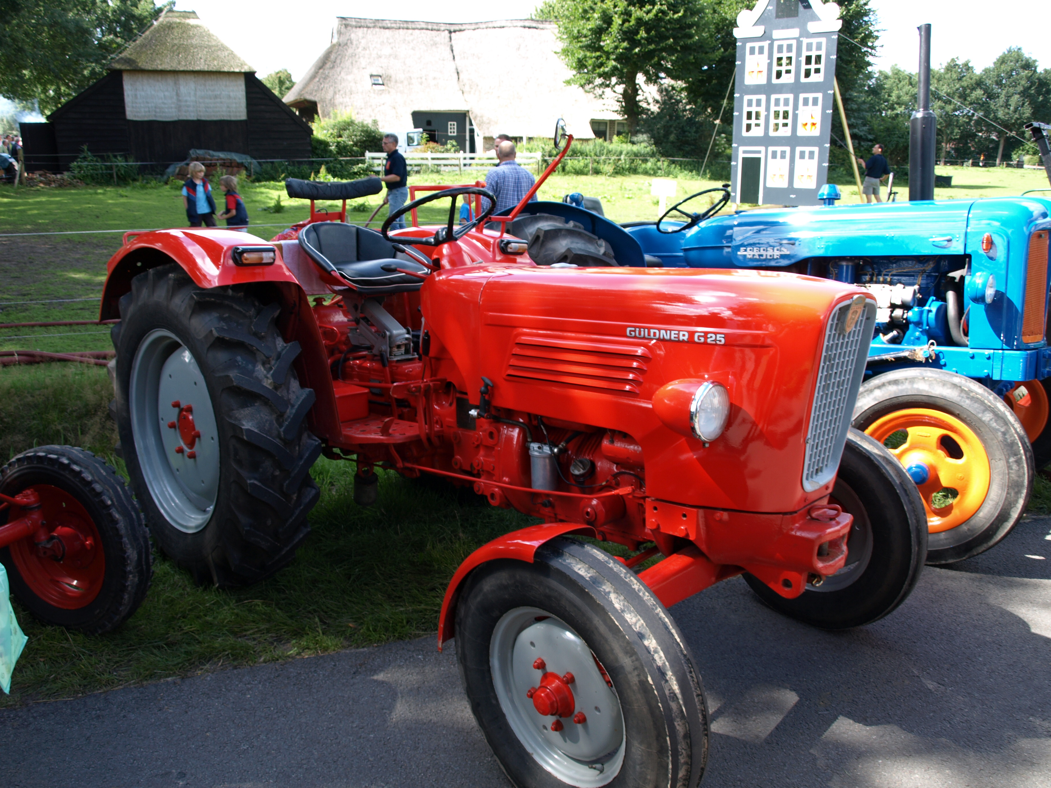 Güldner G 25 tractor, photographed at a show in the Dutch province Drenthe.